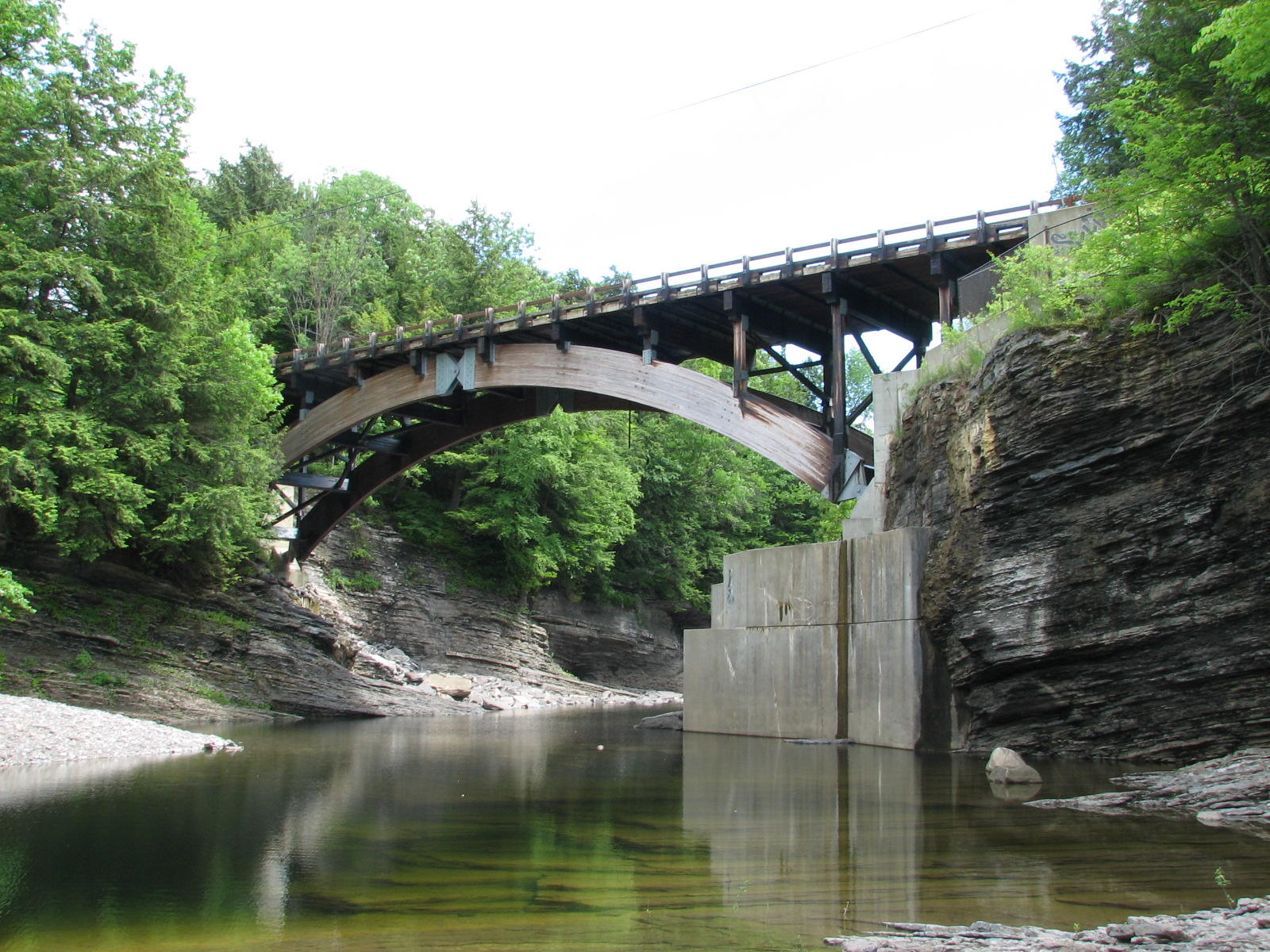 Taken next to the bridge in Prospect, NY. just prior to the photographer being ejected from the property